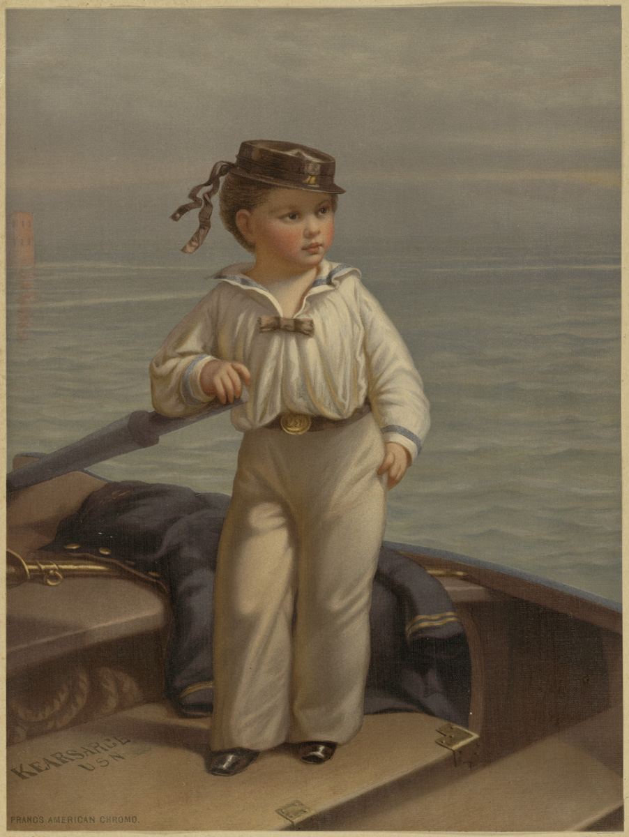 File name: 07_11_001323 Title: Young Commodore Creator/Contributor: Reinhart, Benjamin Franklin (artist); L. Prang & Co. (publisher) Date issued: 1861-1897 (approximate) Copyright date: Physical description note: Genre: Chromolithographs; Portrait prints Location: Boston Public Library, Print Department Rights: No known restrictions Flickr data on 2011-08-04: Camera: Sinar AG Sinarback 54 FW, Sinar m License: CC BY 2.0 User: Boston Public Library BPL